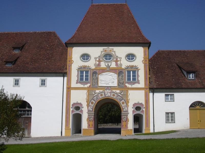 Entrance gate of Schloss Zeil, a castle near Leutkirch, Germany